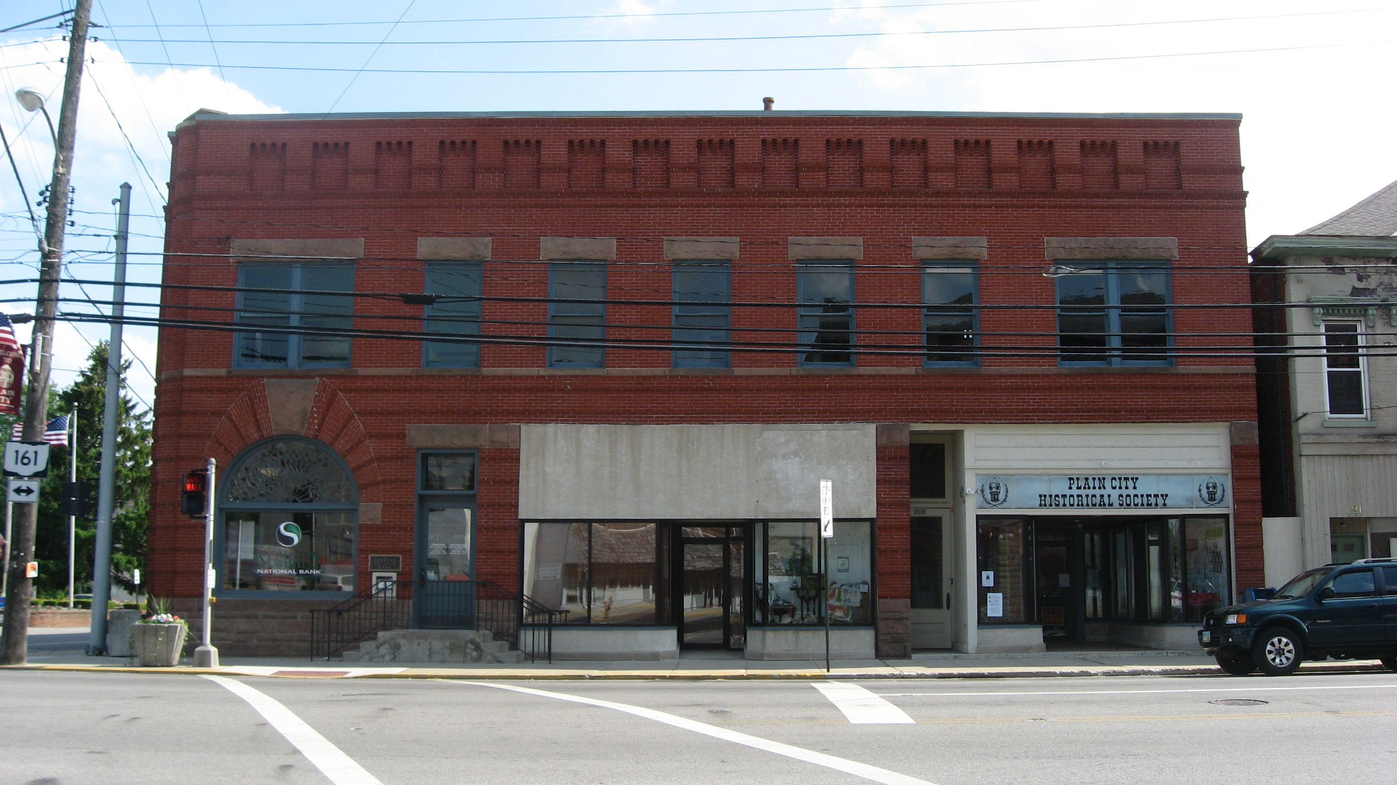 Front of the Farmers National Bank, located on the southwestern corner of the intersection of Main (State Route 161) and Chillicothe Streets in downtown Plain City, Ohio, United States. Built in 1902, it is listed on the National Register of Historic Places.